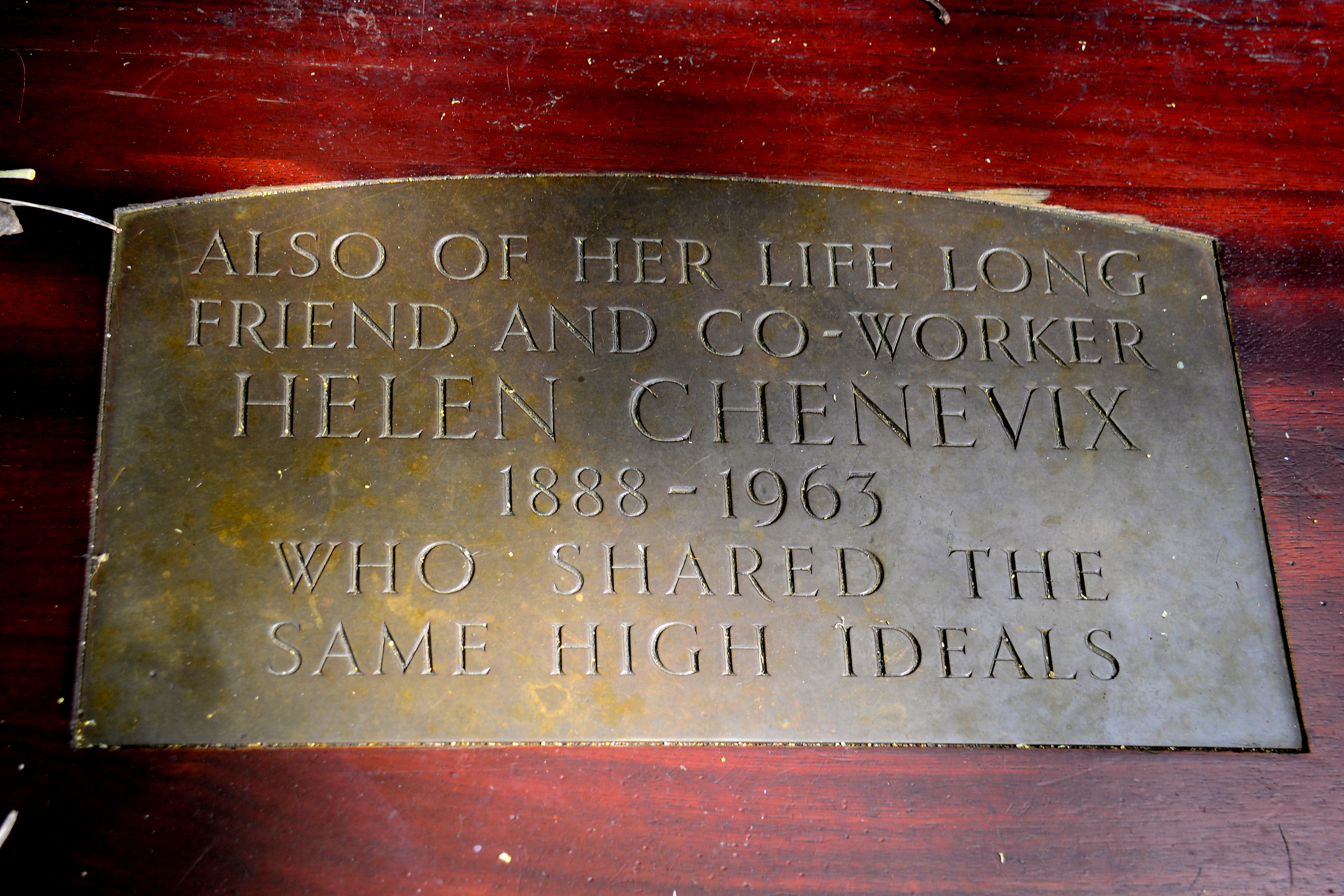 This plate is on a memorial (lunar-shaped) seat at the St Stephen's Green Park, Dublin, Republic of Ireland. Helen Chenevix (1888-1963) was a life-long friend of Louie Bennet (1870-1956) and shared the same high ideals.